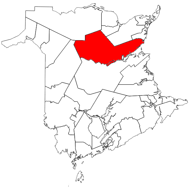 The riding of Miramichi Bay-Neguac in relation to other New Brunswick electoral districts